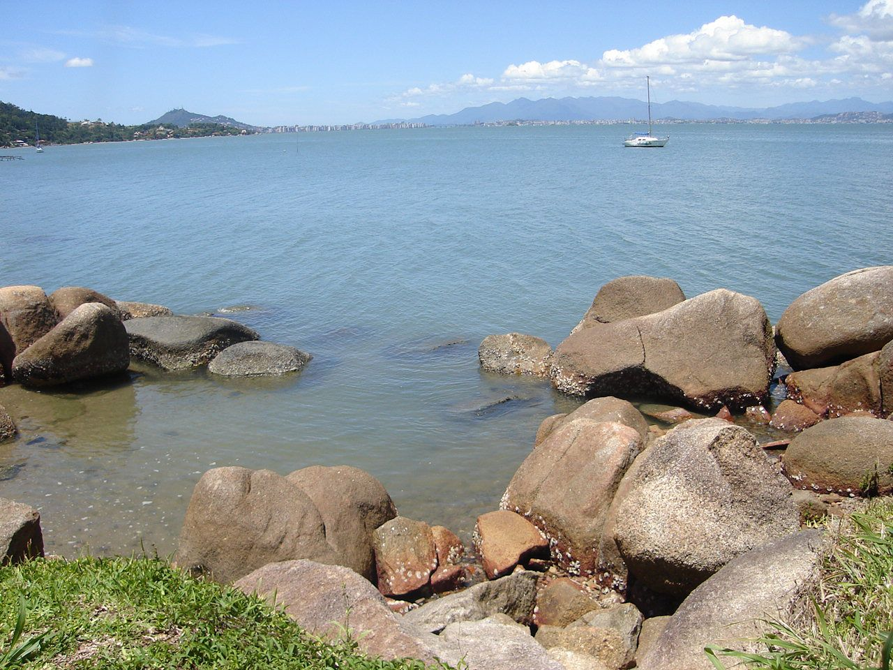 Baía Norte (North Bay) as seen from Sambaqui, Florianópolis, Brazil.